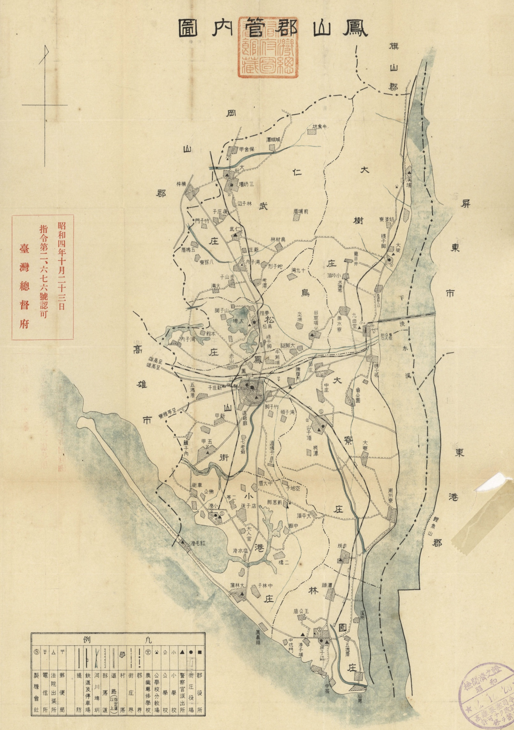 鳳山郡管內圖